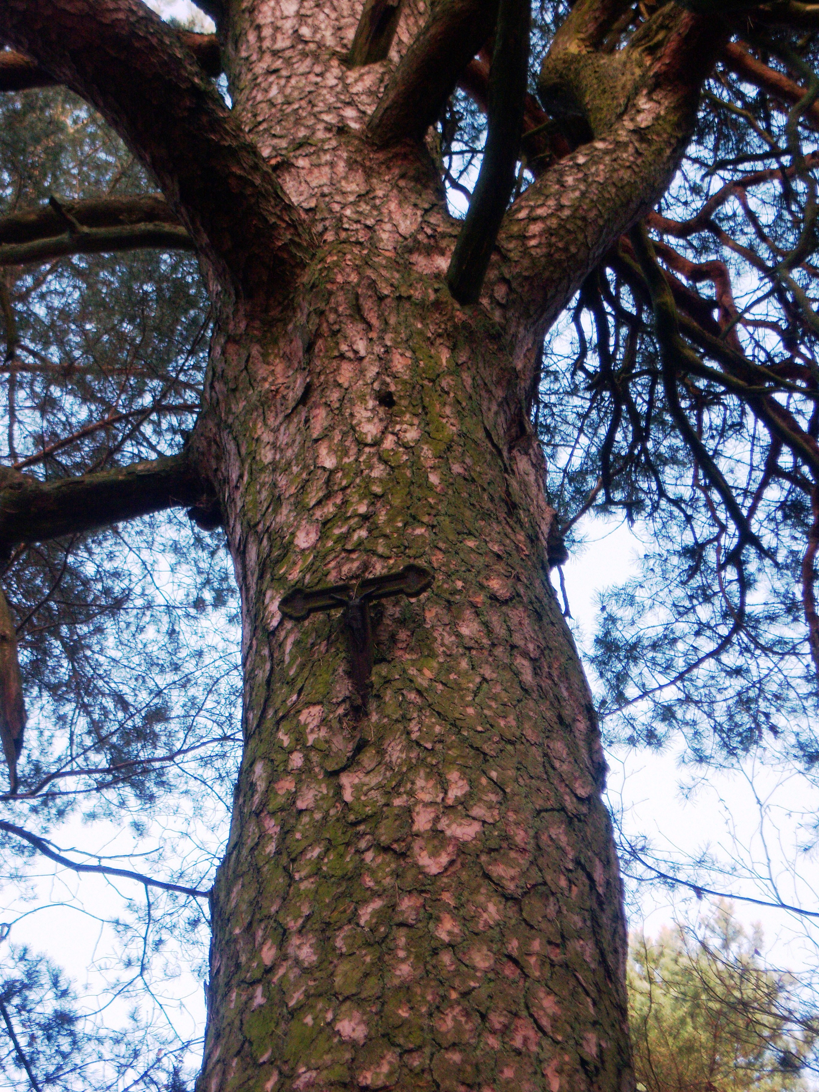 Boros Forest pine tree, trunk, Kaišiadorys District, Lithuania